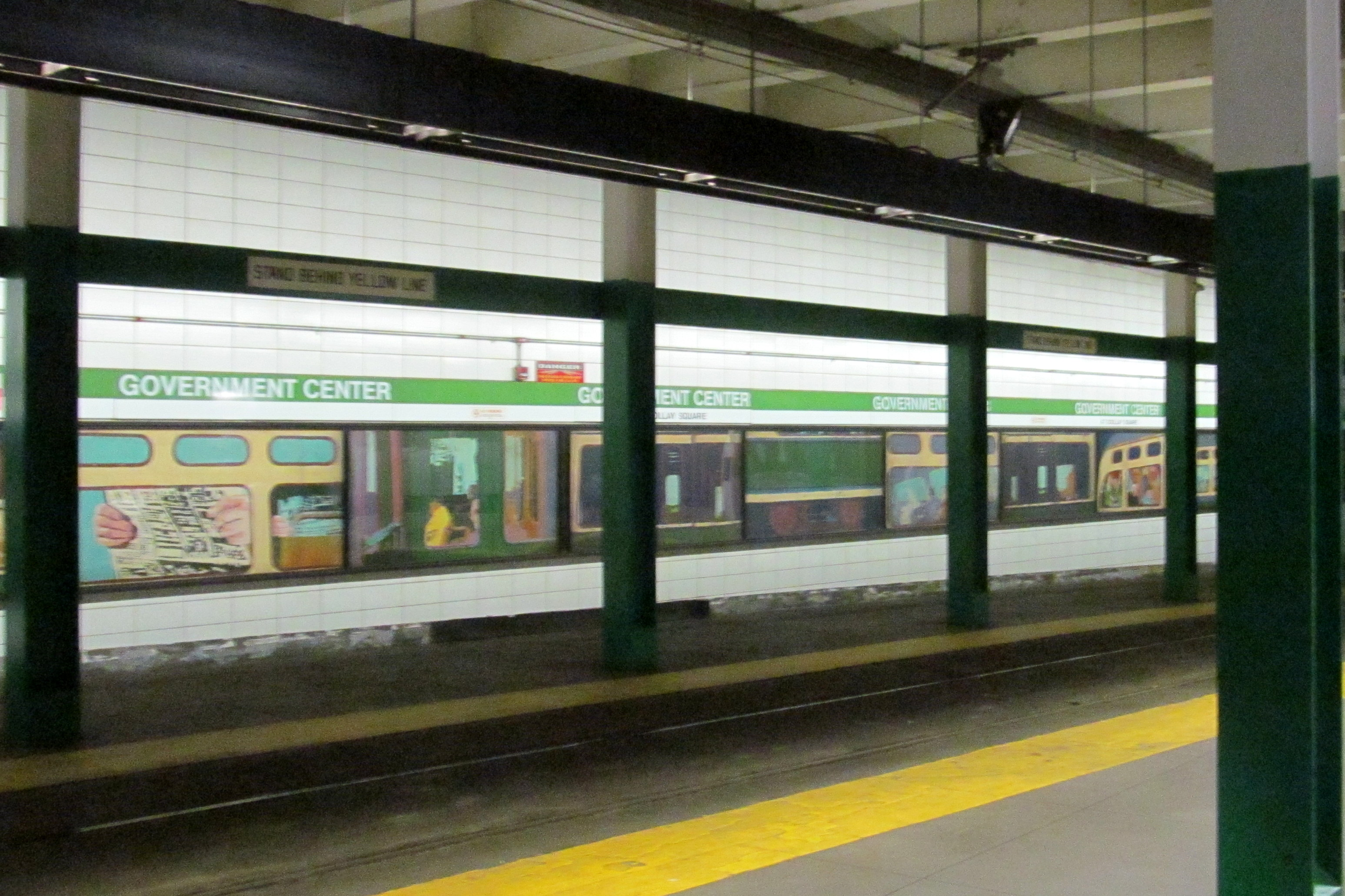 1970s murals by Mary Beams at Government Center station in May 2013